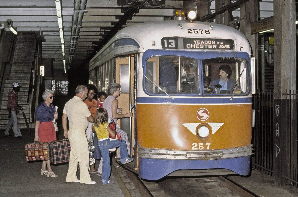 SEPTA PCC #2578 stopped at 19th St. Station in the Trolley Tunnel, August 1980. Route 13 still operates with the so-called "K" cars but air-electric PCC #2578, built in Januay of 1941, was sold for scrap in 1982.